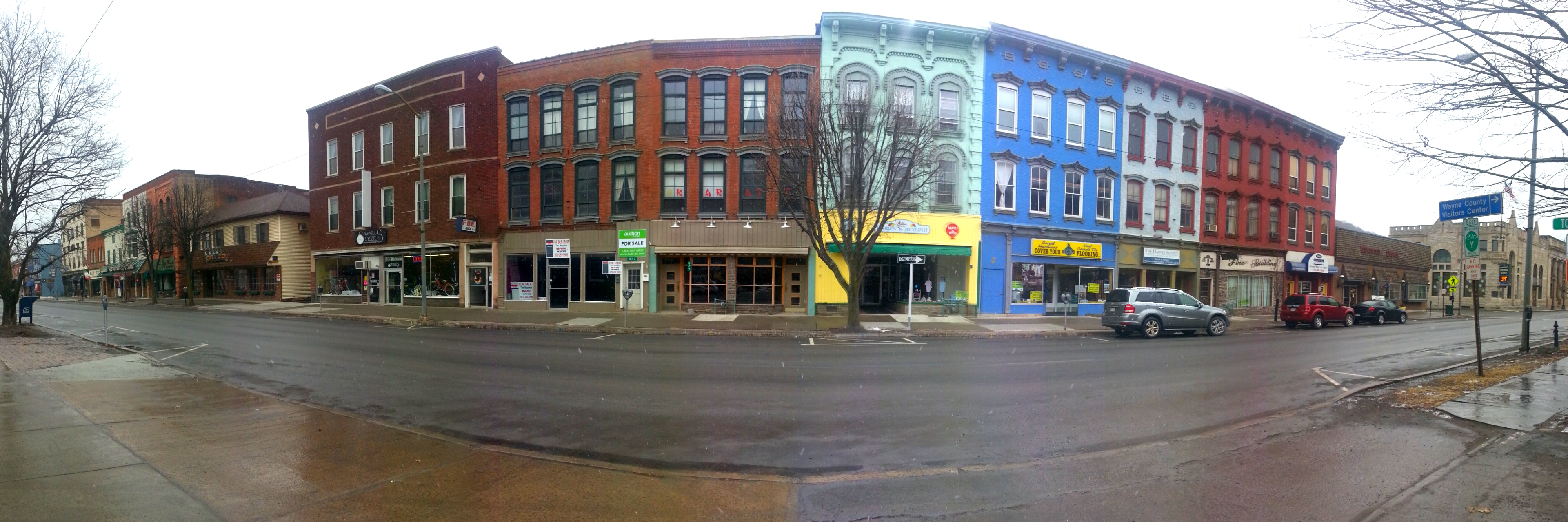 The 800 block (west side) of Main Street Honesdale.